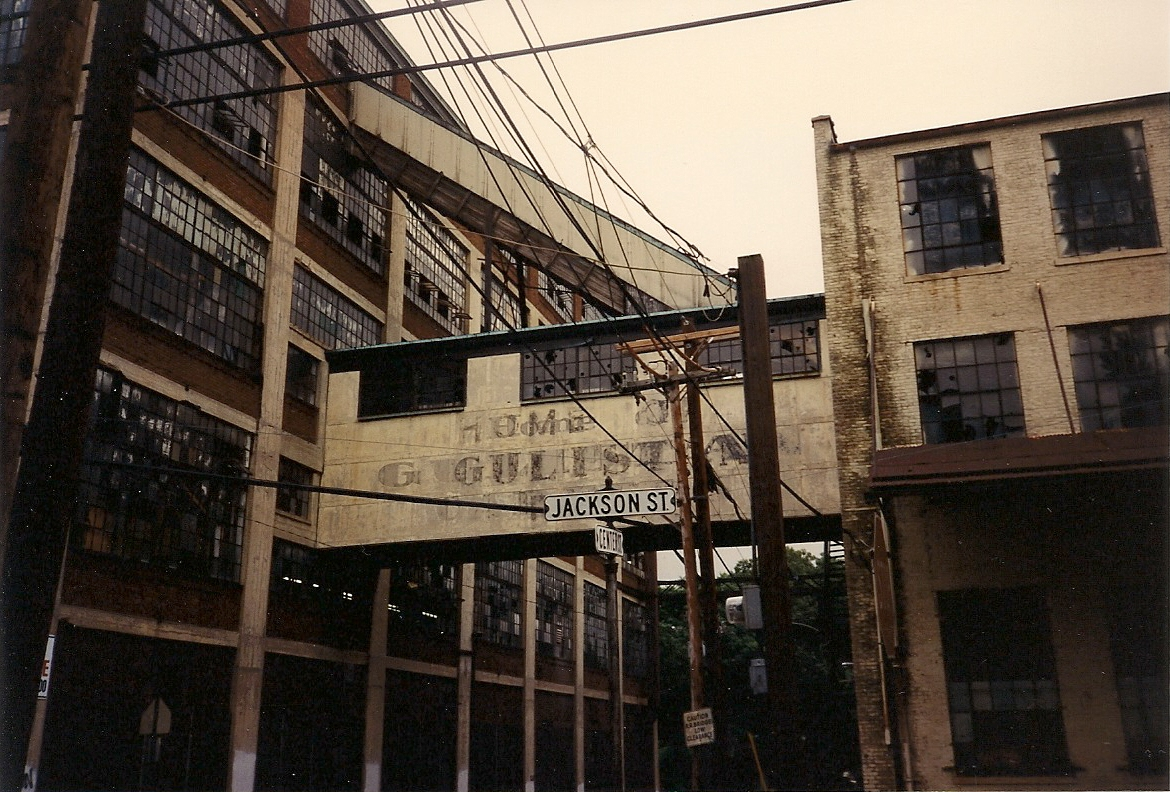 A portion of the A & M Karagheusian rug mill in Freehold, New Jersey, long after its closing